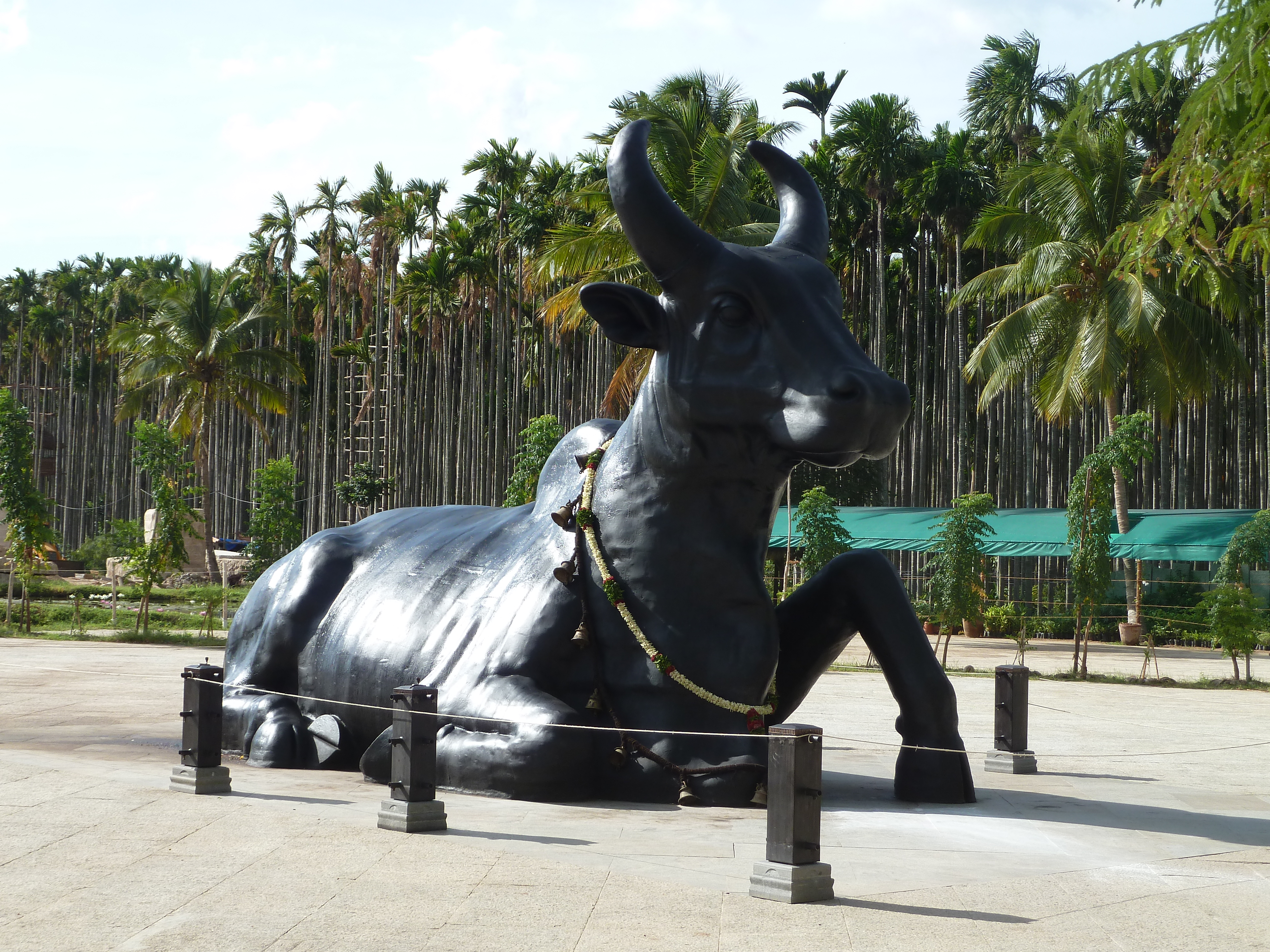 This Nandi is found in the entrance of Dhyanalinga